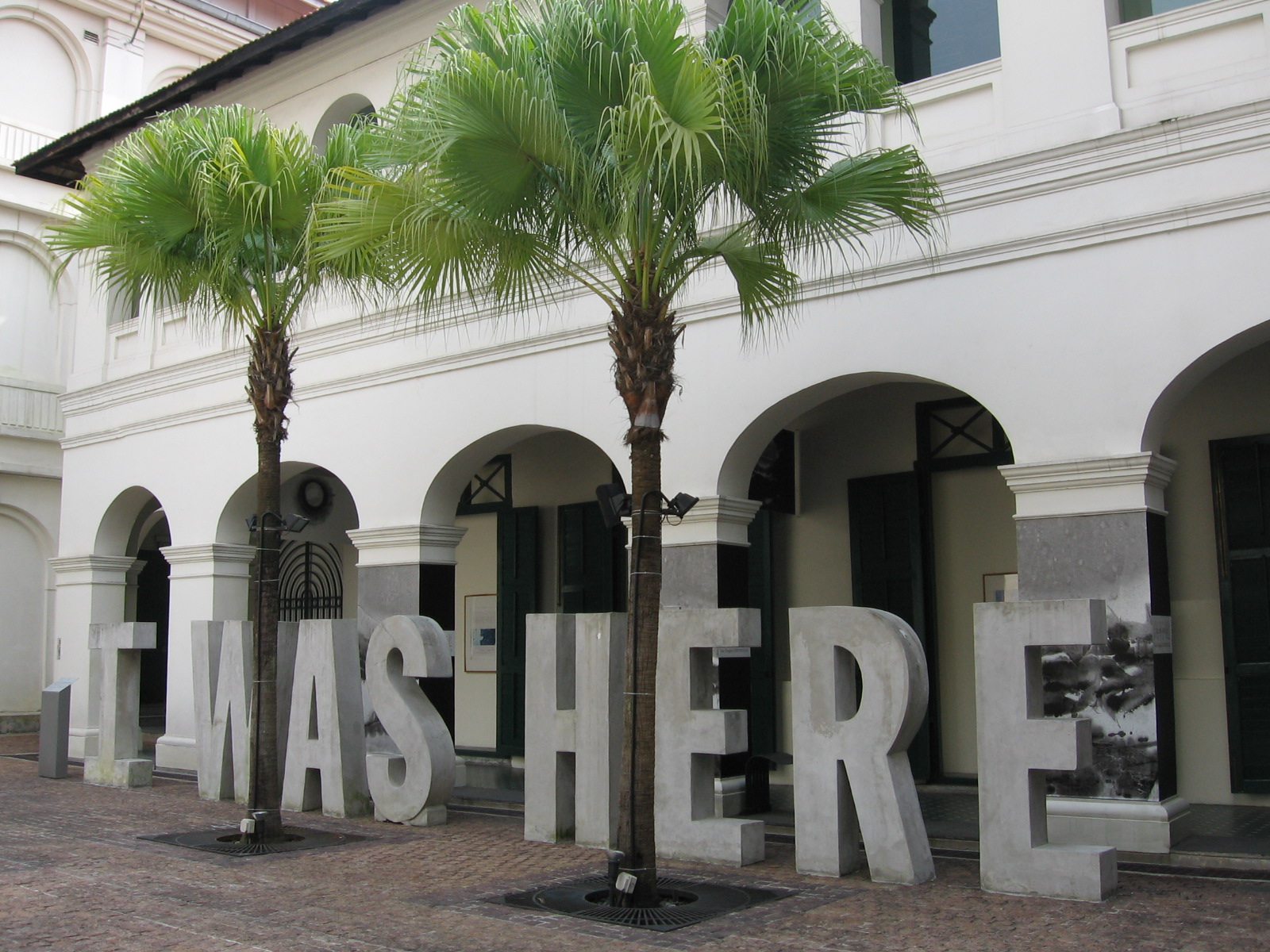 The sculpture I Was Here (2004) by Francis Ng in the courtyard of the Singapore Art Museum. It is now permanently installed in front of the University Cultural Centre, National University of Singapore.